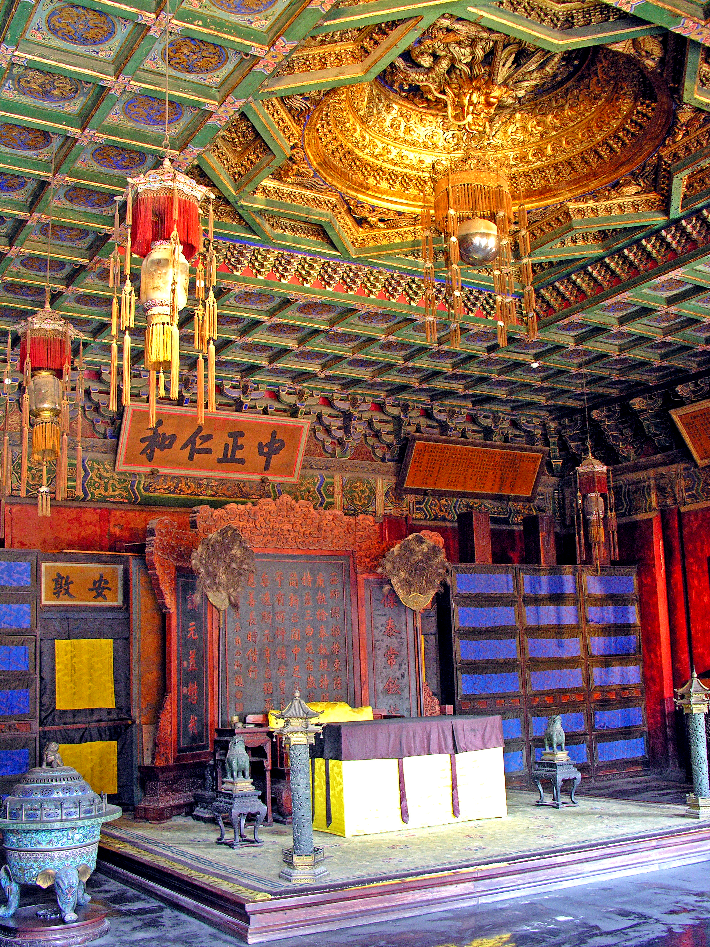 Throne in the Palace of Heavenly Purity.